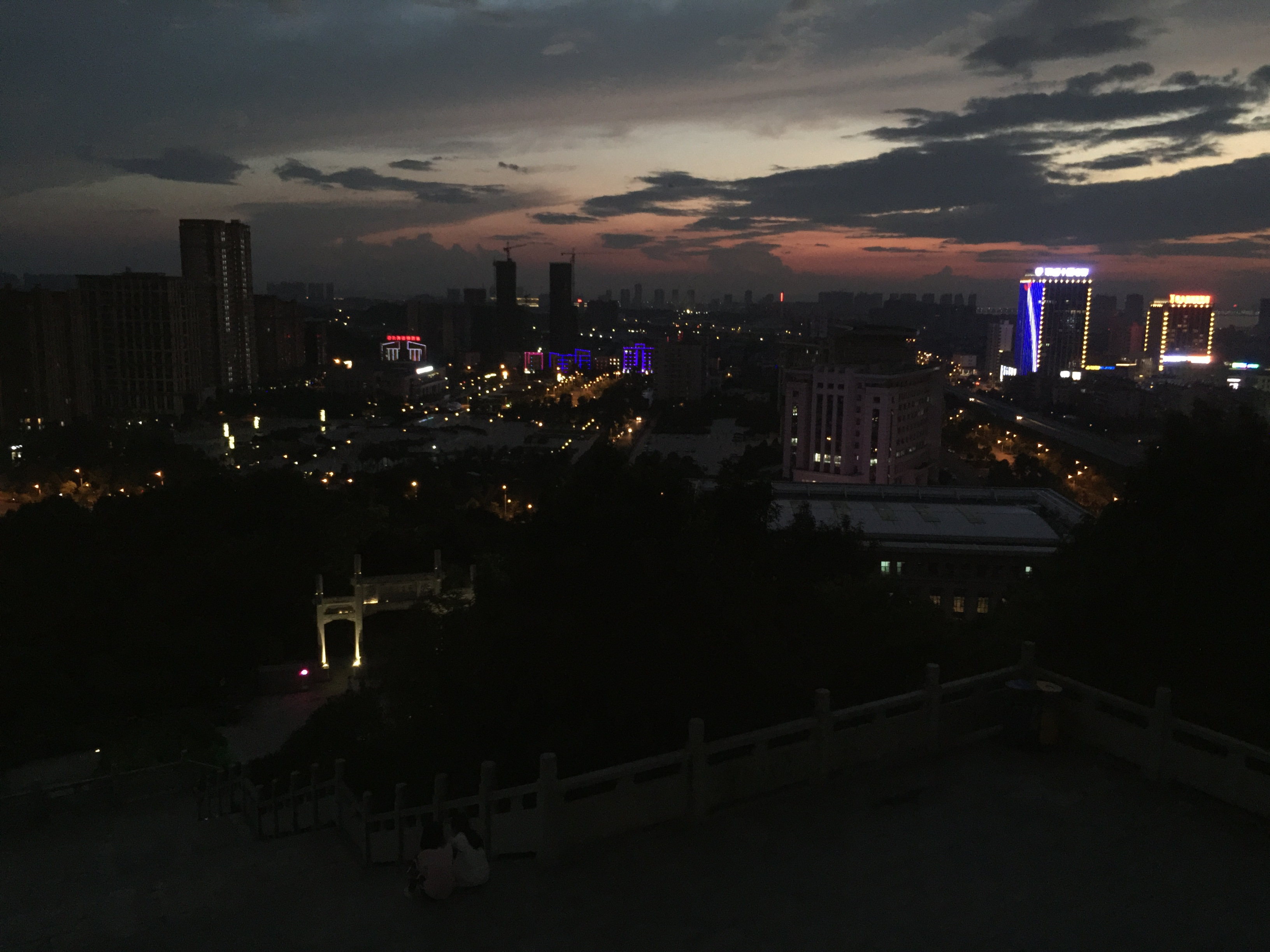 Nanshan Park in Lianxi District